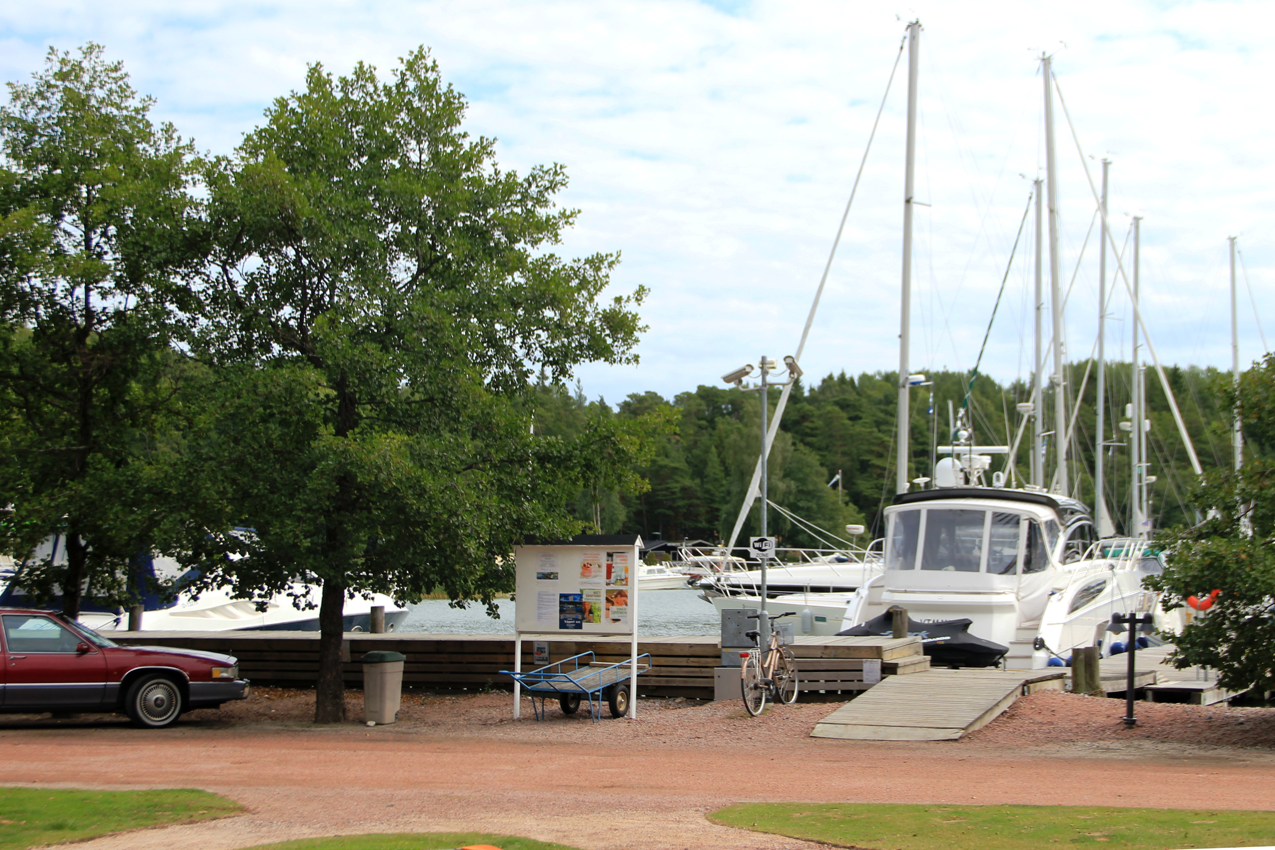 Marina in Ruissalo, Turku, Finland